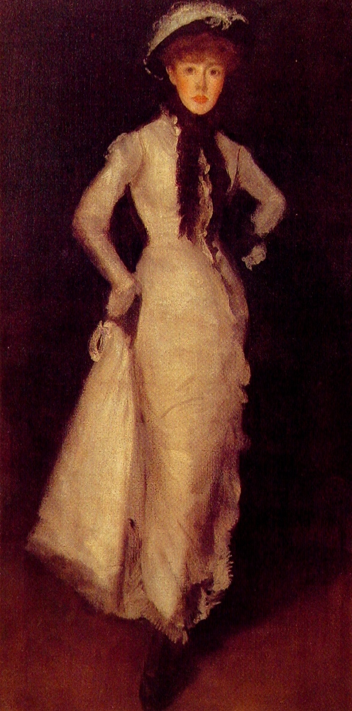 Arrangement in White and Black